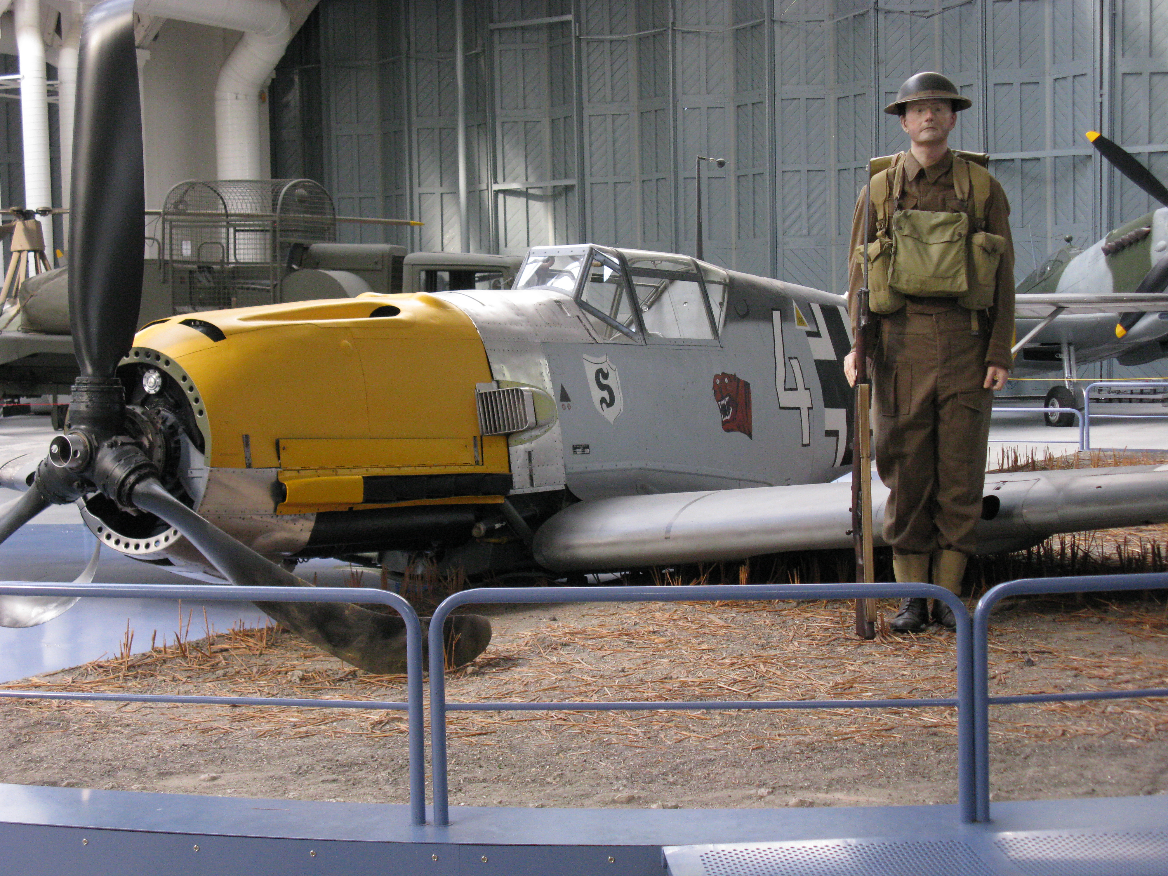 A crash-landed Messerschmitt Bf-109 on display at Imperial War Museum Duxford